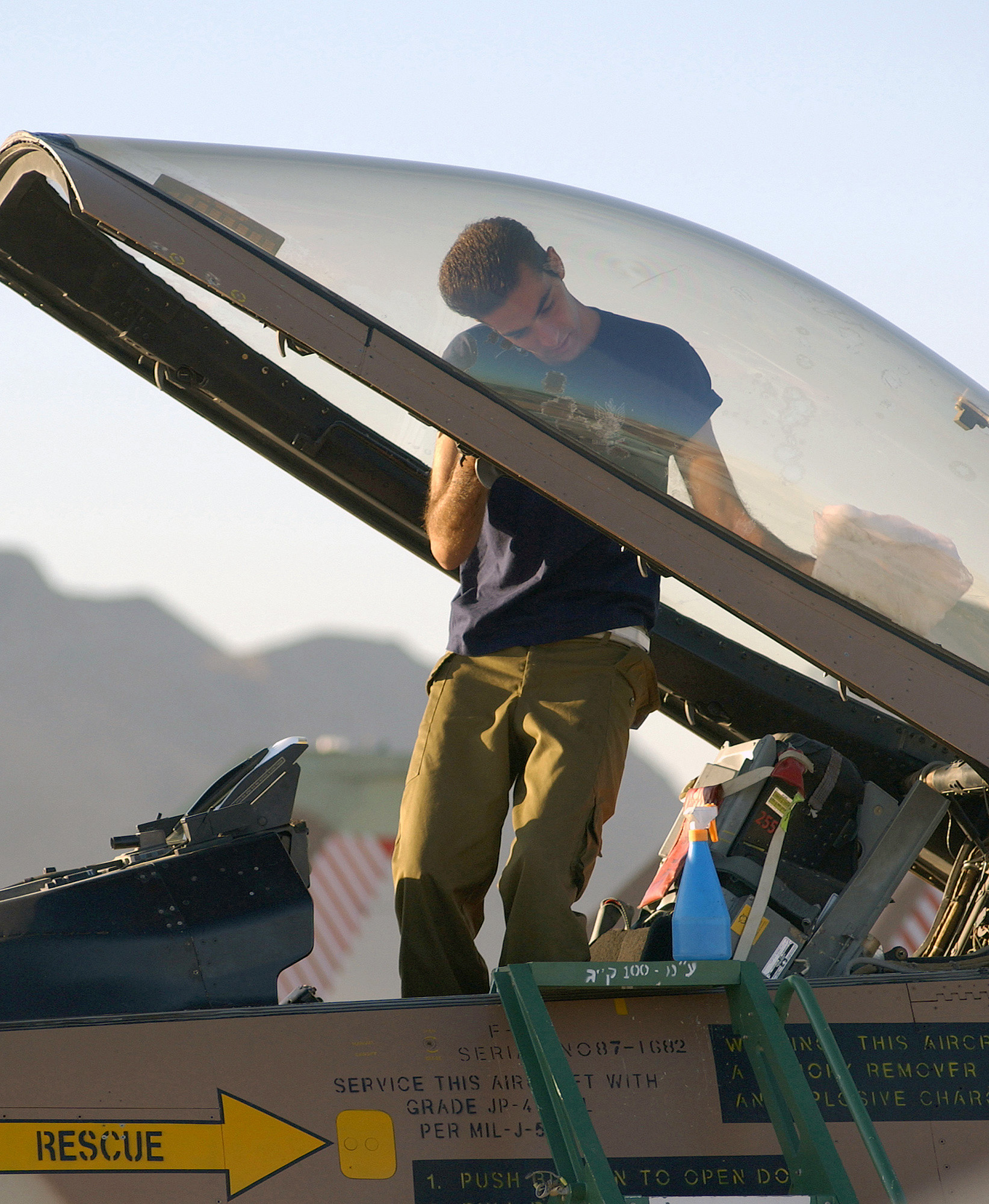 ISRAELI Air Force (IAF) Sergeant (SGT) Oren Barazani, F-16 Fighting Falcon aircraft Crew Chief, cleans the cockpit canopy of his aircraft, on the flight line at Nellis Air Force Base (AFB), Nevada (NV), during Exercise RED FLAG 2003. Red Flag is currently the most realistic simulated air-warfare training exercise held anywhere in the world. It regularly involves the air forces of the United States and its allies. Location: NELLIS AFB, NEVADA (NV) UNITED STATES OF AMERICA (USA)